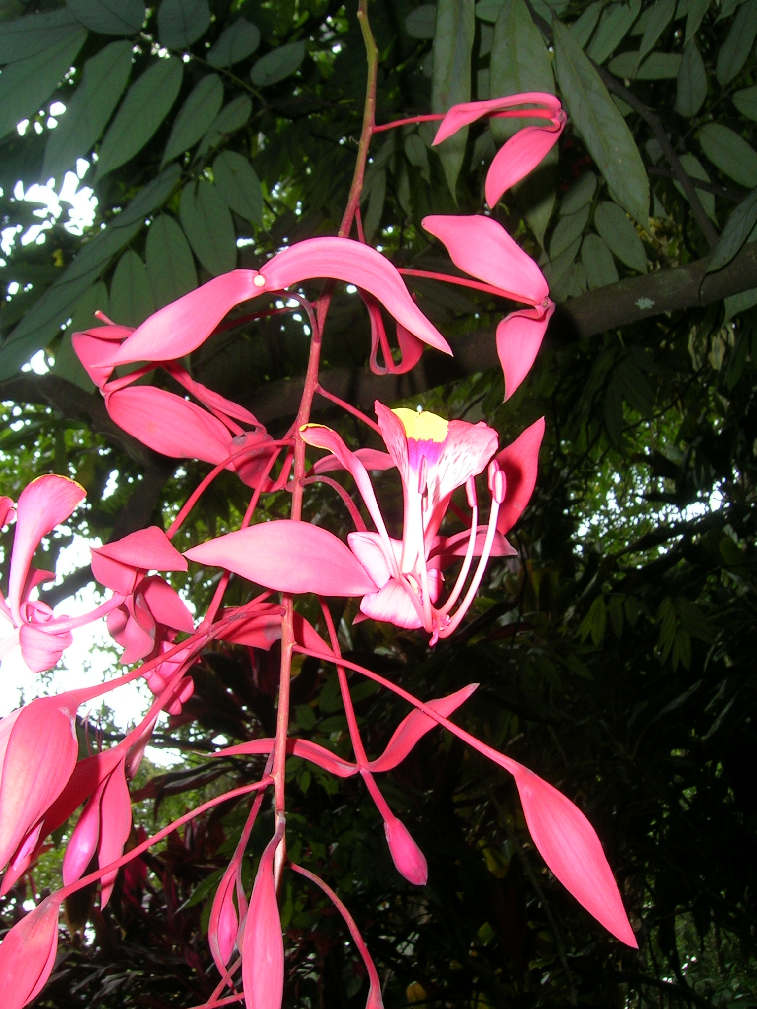 Amherstia nobilis